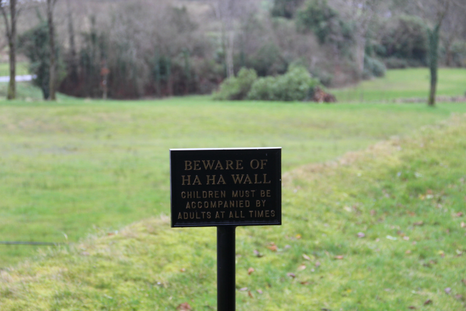 Ha Ha Wall sign